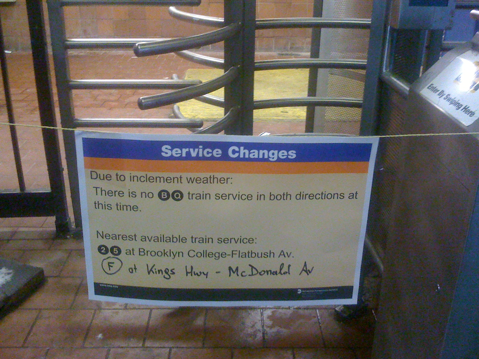 Sign showing the Kings Highway station(B & Q Lines) closed as the result of the 2010 blizzard.